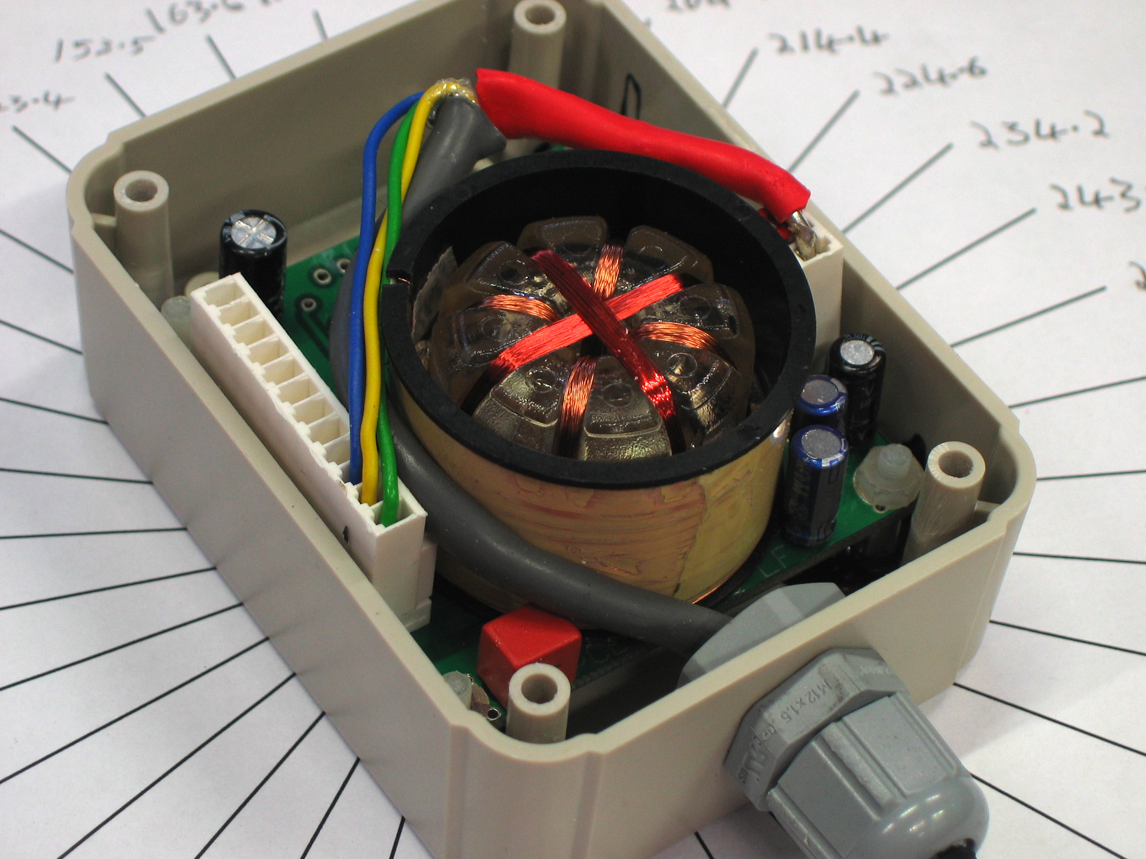 This device is a combined inclinometer and compass. It uses a fluxgate sensor, with the ferrite core floating in liquid, and is made by Autonnic Research Ltd.